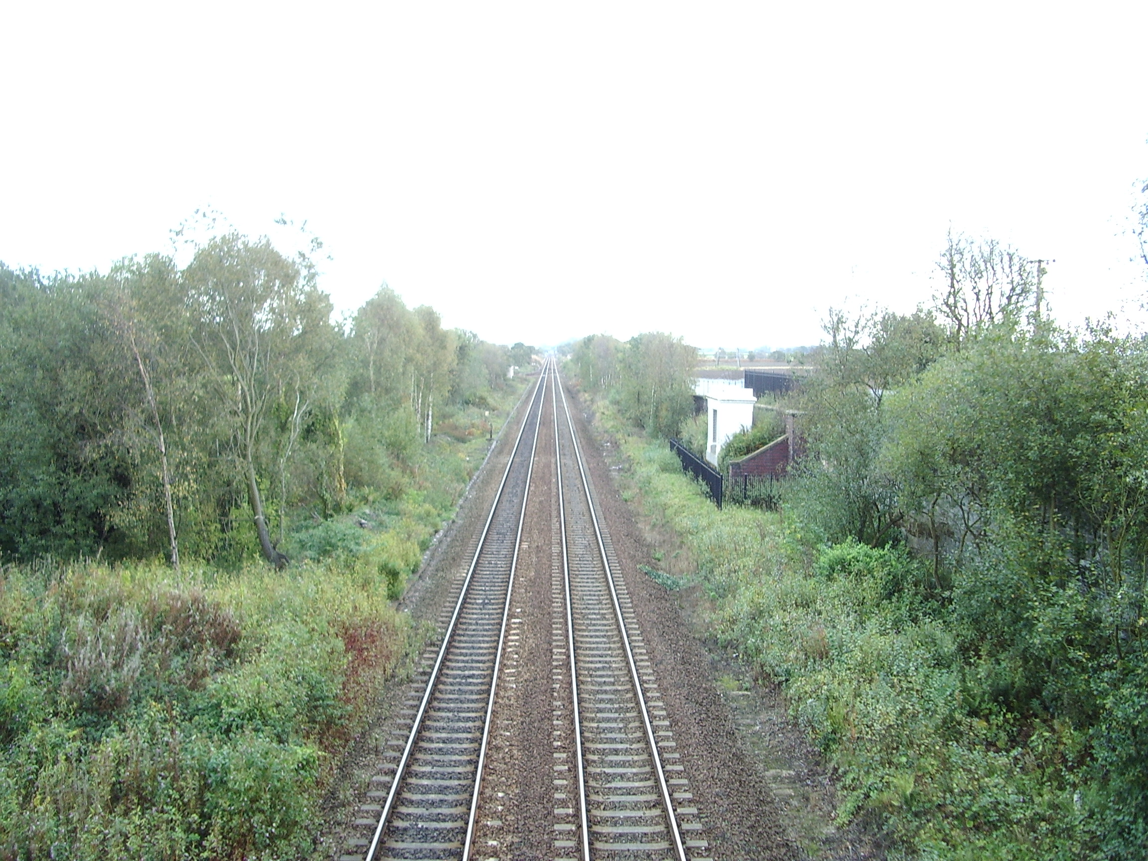 Monument to William Huskisson (currently fenced off), photograph taken by Lmno on 9 Oct 2004